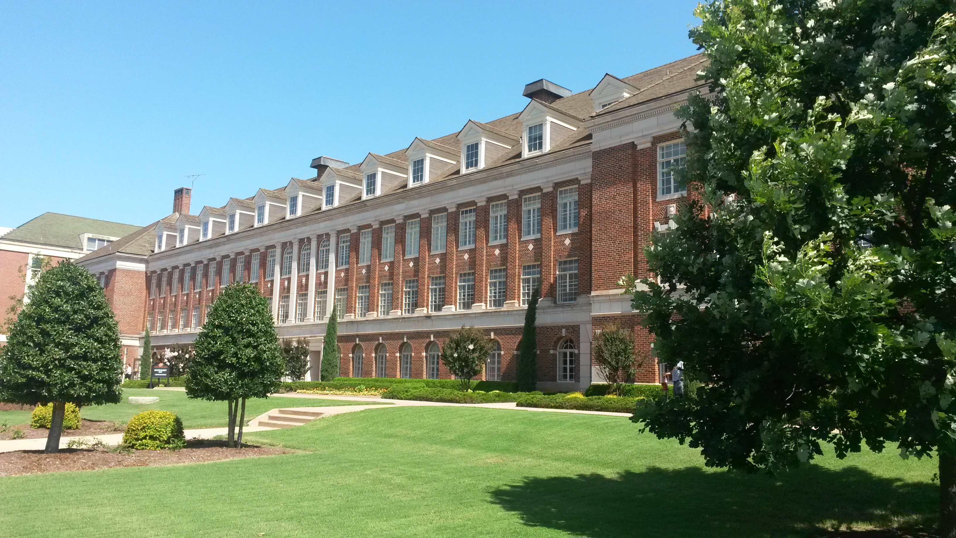 Image from the front of Whitehurst Hall at Oklahoma State University